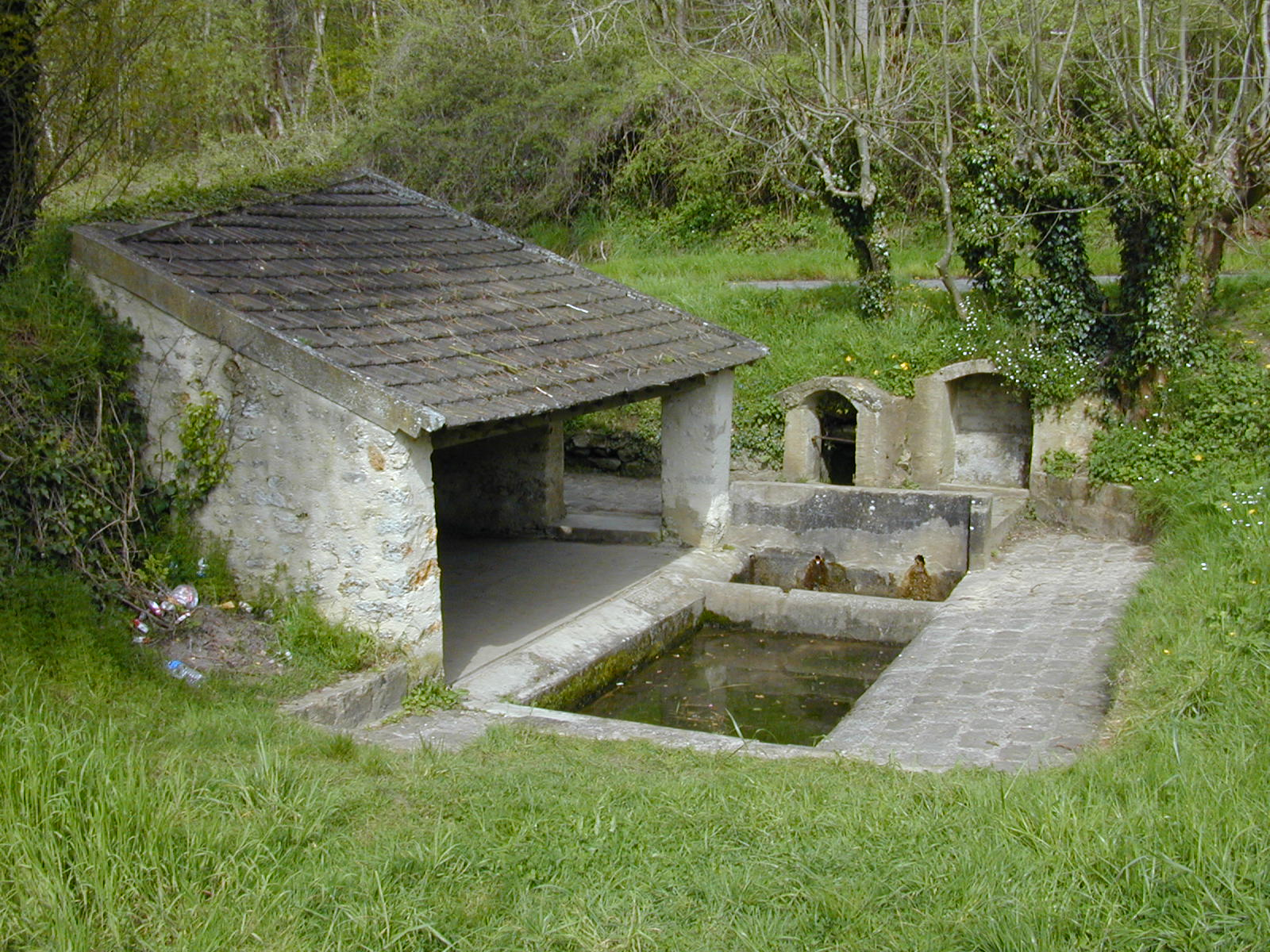 Photo of Aincourt's old public lavoir